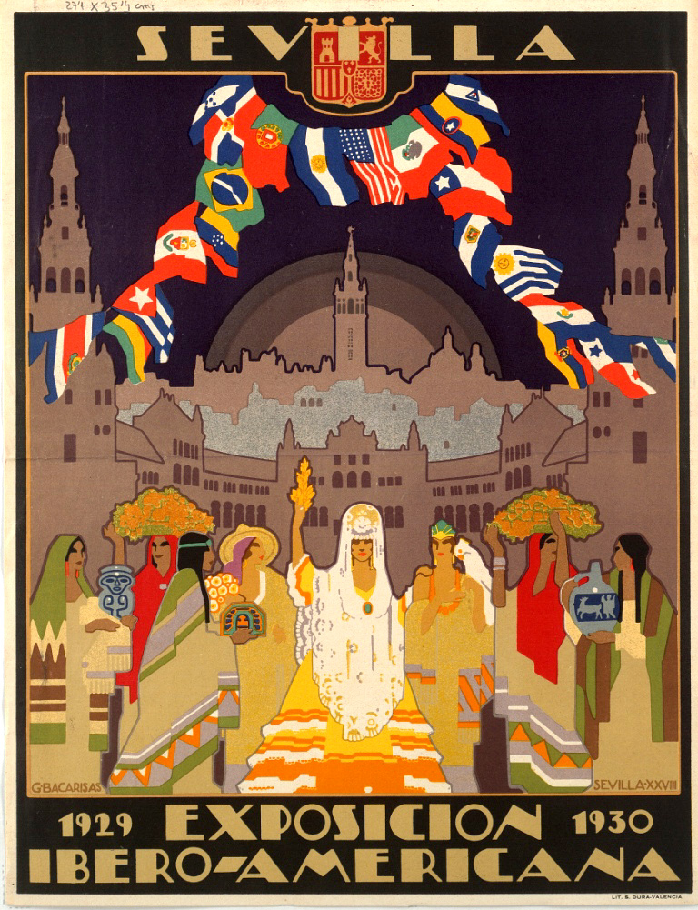 Poster for the Ibero-American Exposition of 1929, held in Sevilla, Spain.